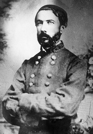 Portrait of Daniel Harvey Hill by George S. Cook